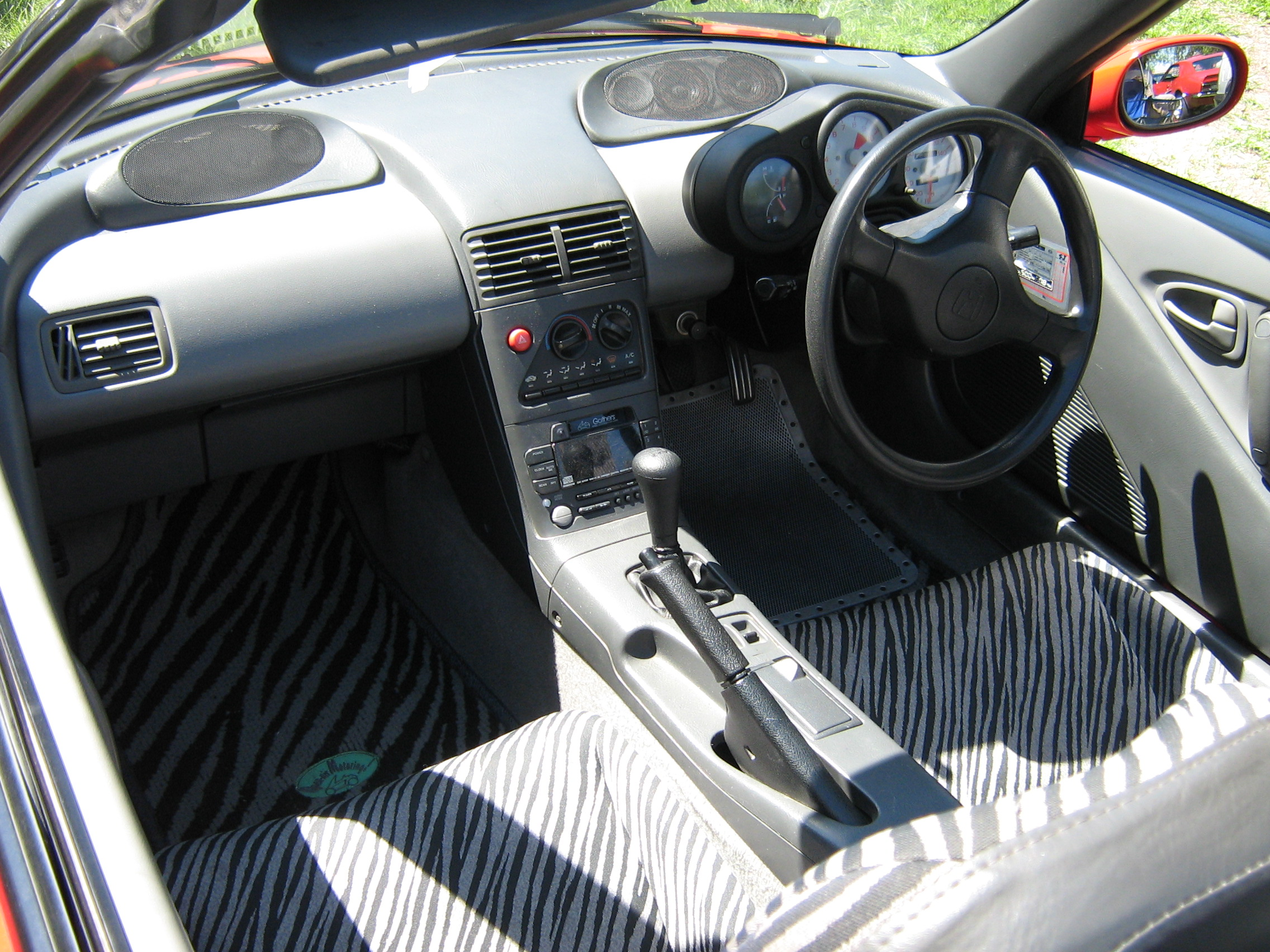 Honda Beat